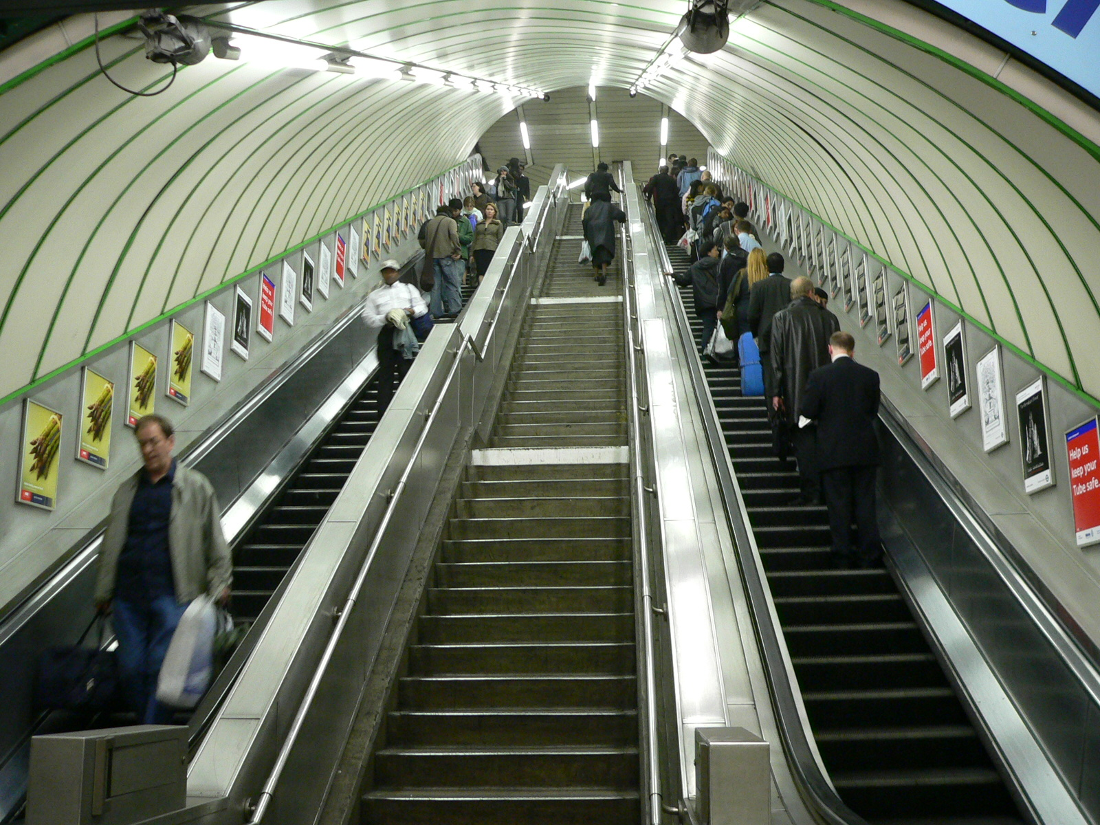 The escalators between the deep-level Bakerloo Line platfoms and sub-surface level ticket all at Paddington London Underground station.